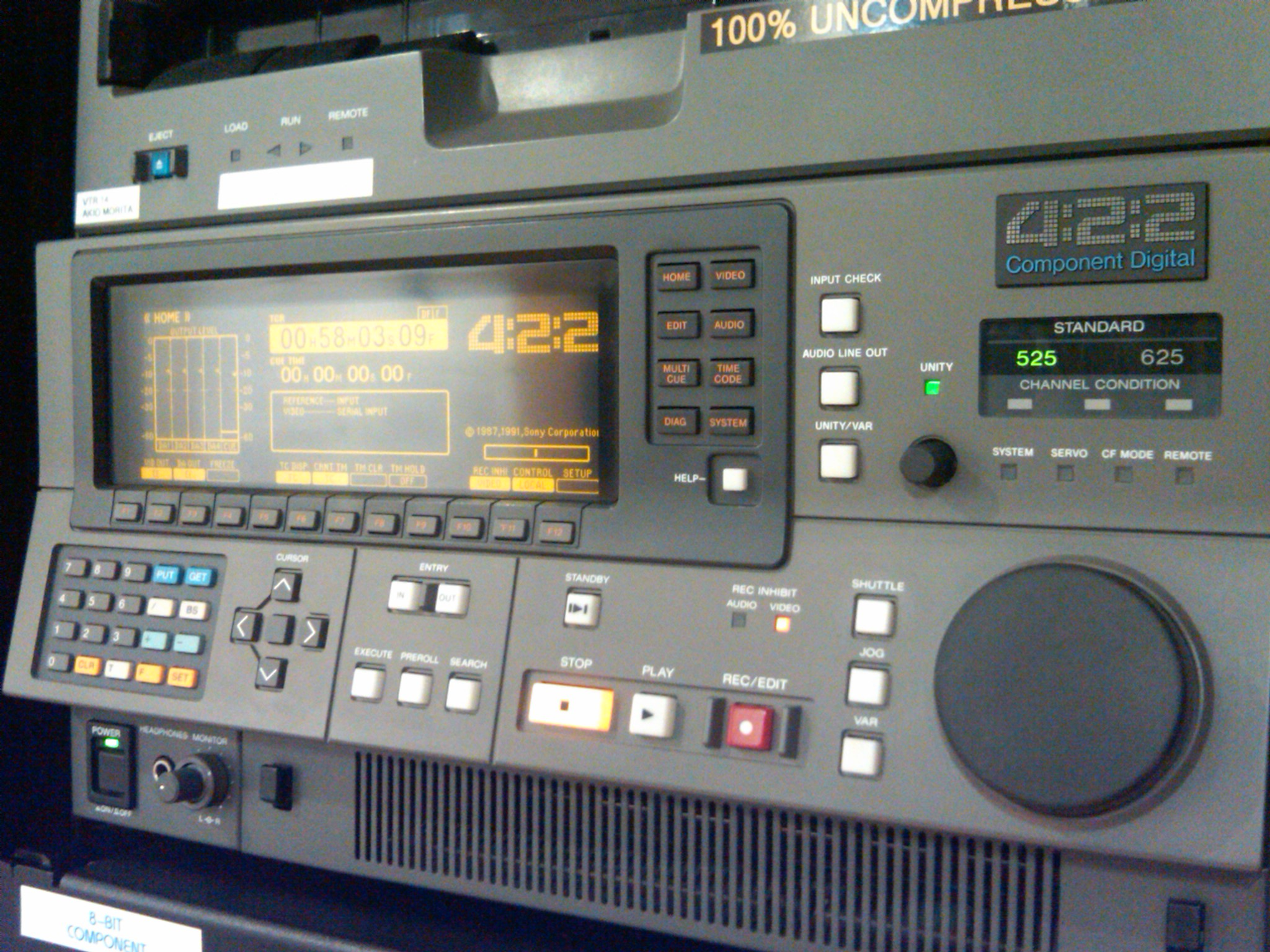 Sony D1 4:2:2 2nd Generation DVR-2100 VTR, $120,000 U.S. MSRP, circa 1989. Photo courtesy of Keoni Tyler, Film & Television Director-Writer-Editor, Hollywood